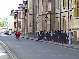 Pupils in regalia at New College School, Oxford. To illustrate the nurturing of aspiration and ambition.